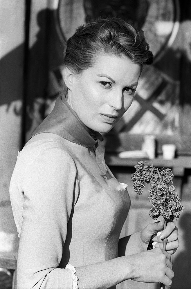 The Italian actress Silvana Mangano acting in the film 'Tempest'. Yugoslavia, 1958